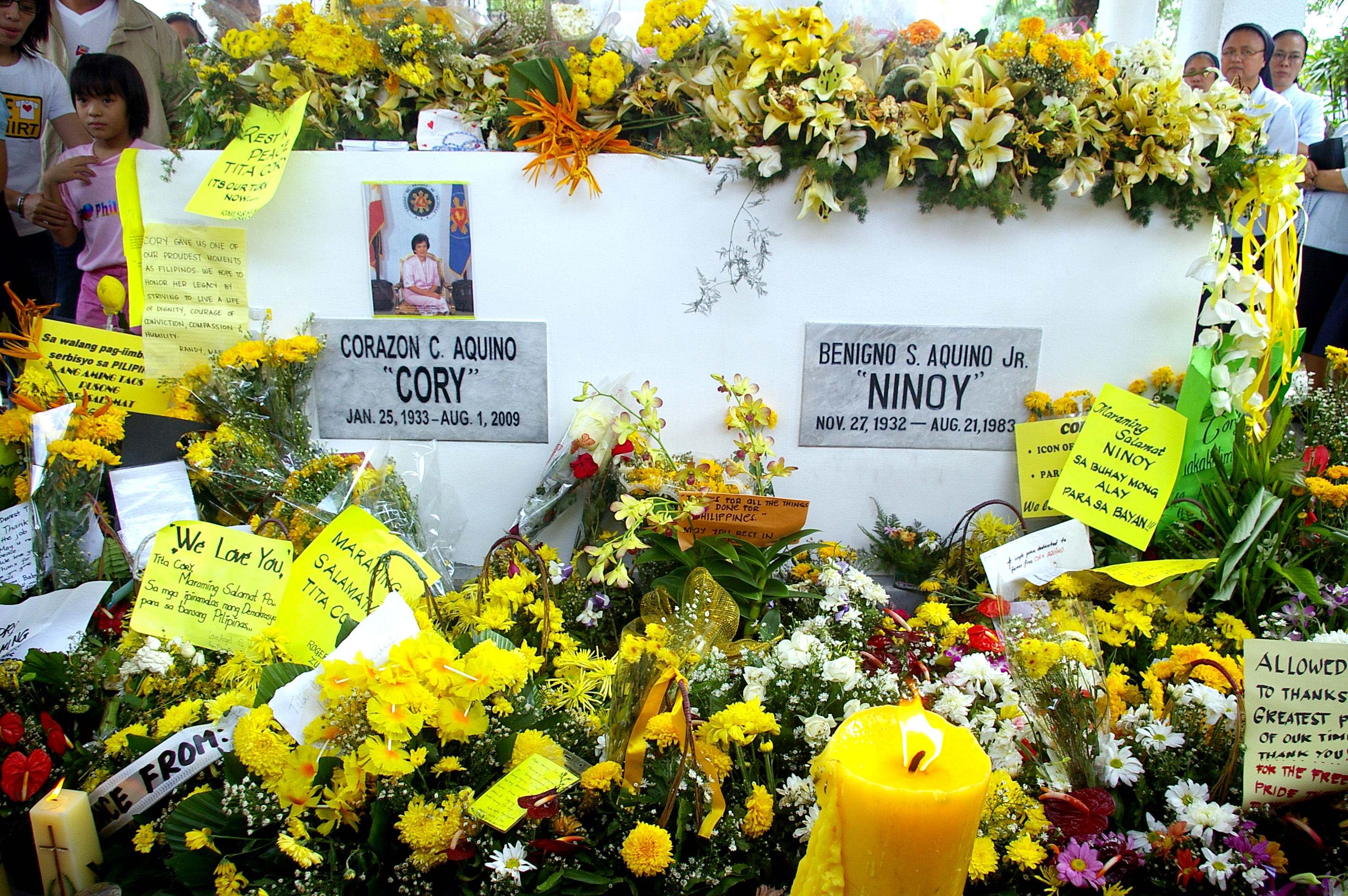 Former Philippine President Corazon Aquino's grave is next to her husband Ninoy Aquino's at the Manila Memorial Park in Sucat, Paranaque, Philippines